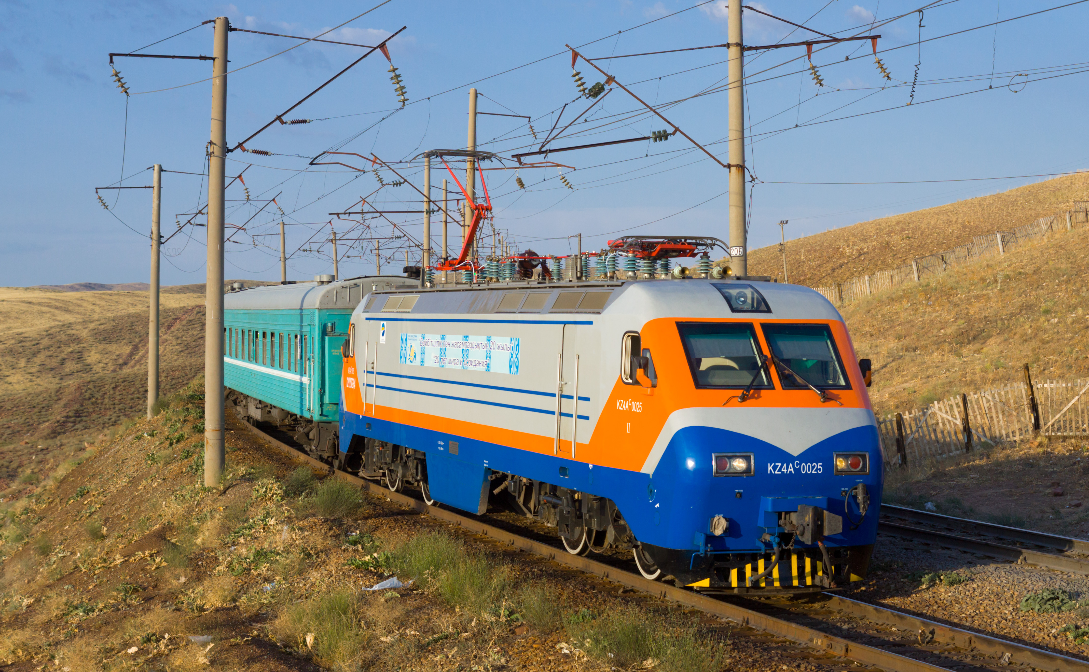 Kasachstan Temir Scholy class KZ4A with train 51 Almaty - Karaganda between Chokpar and Ala-Aygir, Kazakhstan